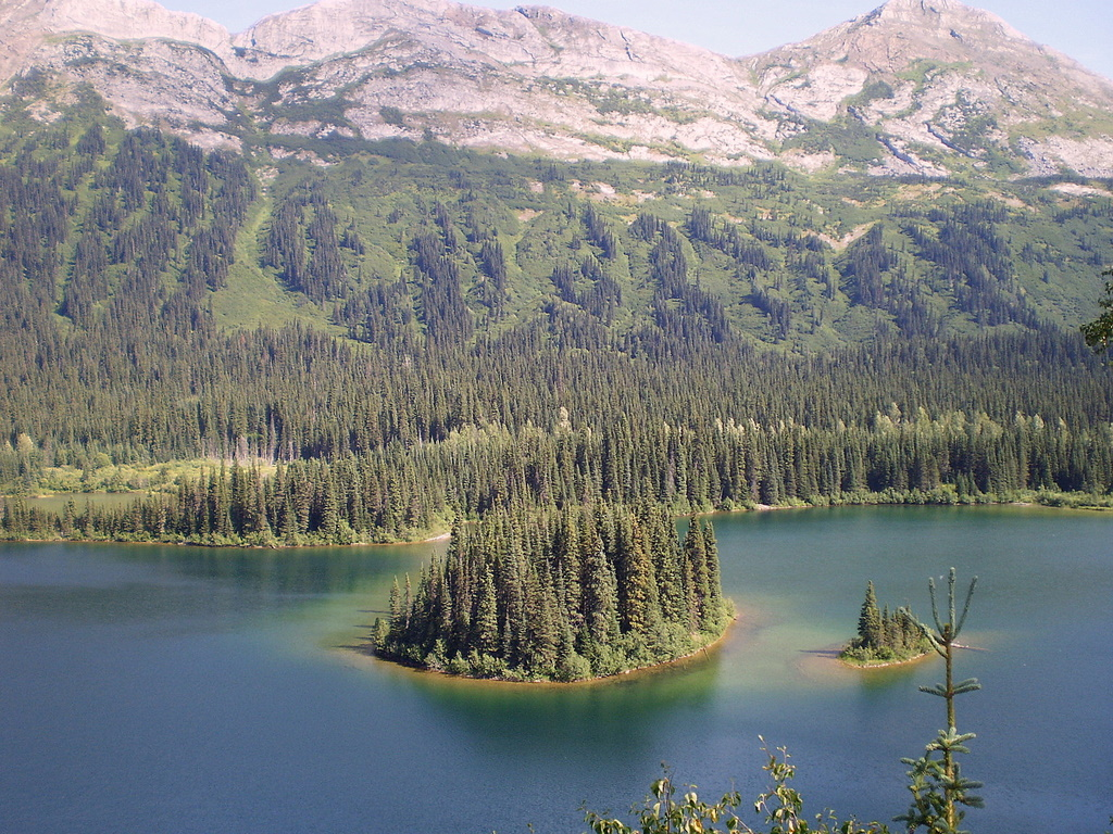 Azouzetta Lake in the Northern Rockies along John Hart Hwy!!Dans les Rocheuses du Nord BC!!Azu Lake in The local slang!!